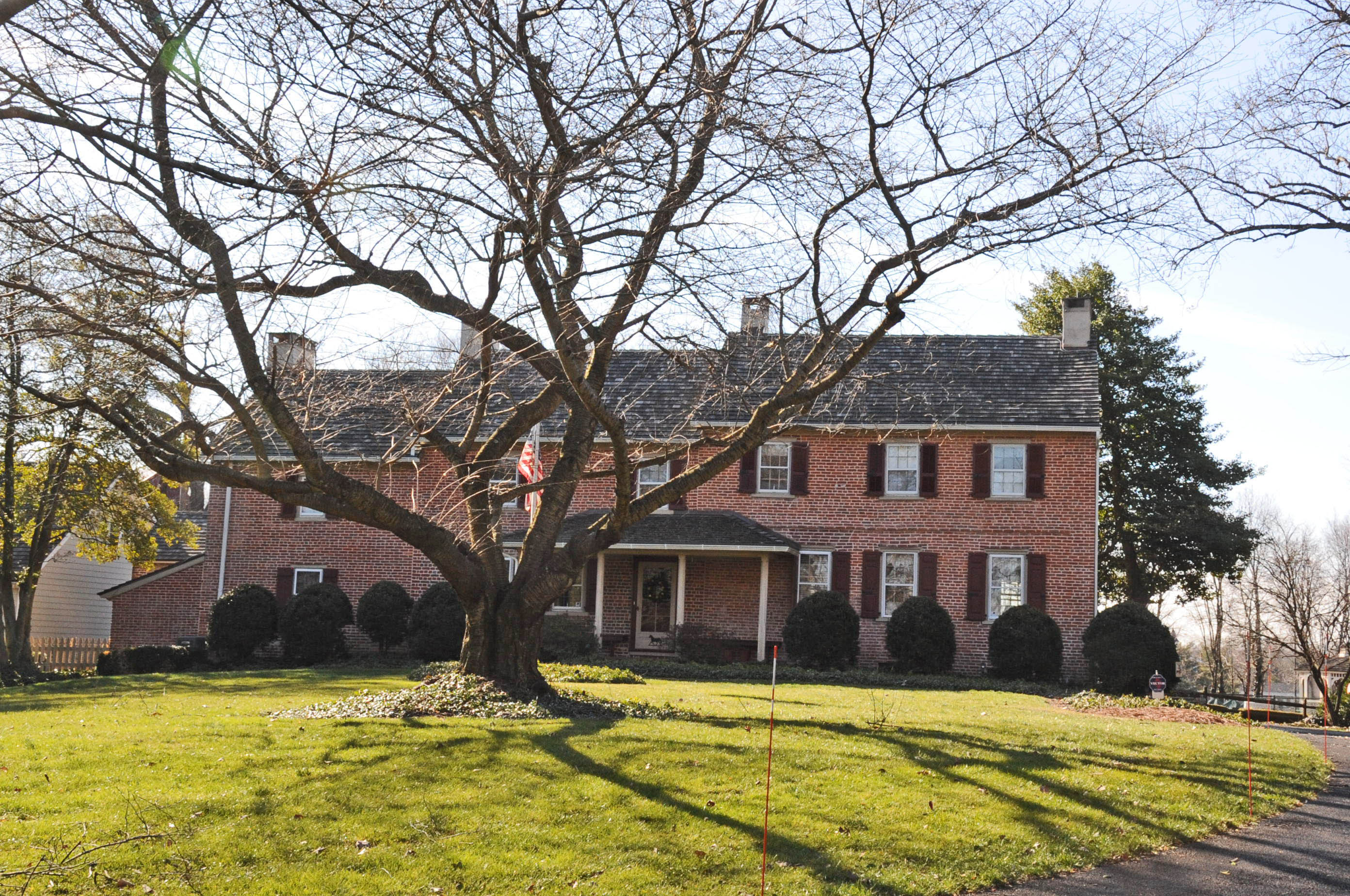 ALSO KNOWN AS HOLLY FARM, IS A HISTORIC HOME AND FARM LOCATED NEAR GLASGOW, . THE OLDEST SECTION DATES TO THE LAST HALF OF THE 18TH CENTURY, WITH ADDITIONS DATING TO THE 18TH AND 19TH CENTURIES.